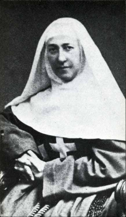 Marie Eugénie de Jésus (Anne-Eugénie) Milleret de Brou (1817-1898), founder of the Religious of the Assumption